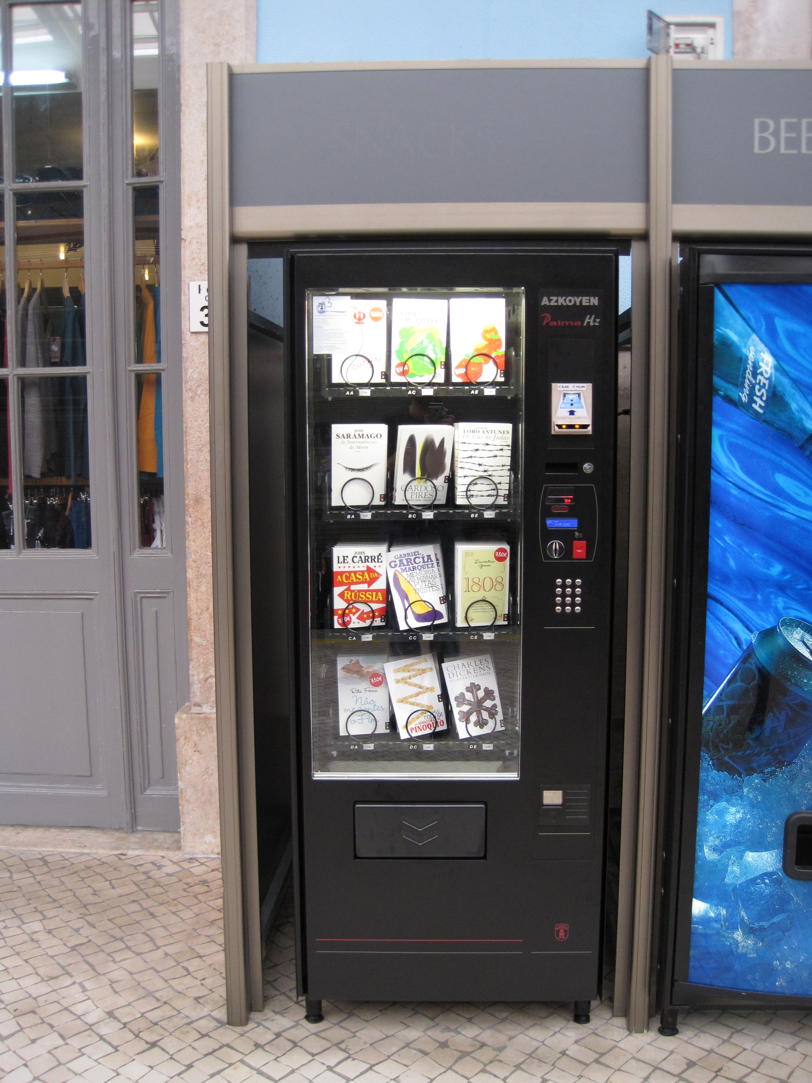 Book vending machine in Santa Apolónia station in Lisbon